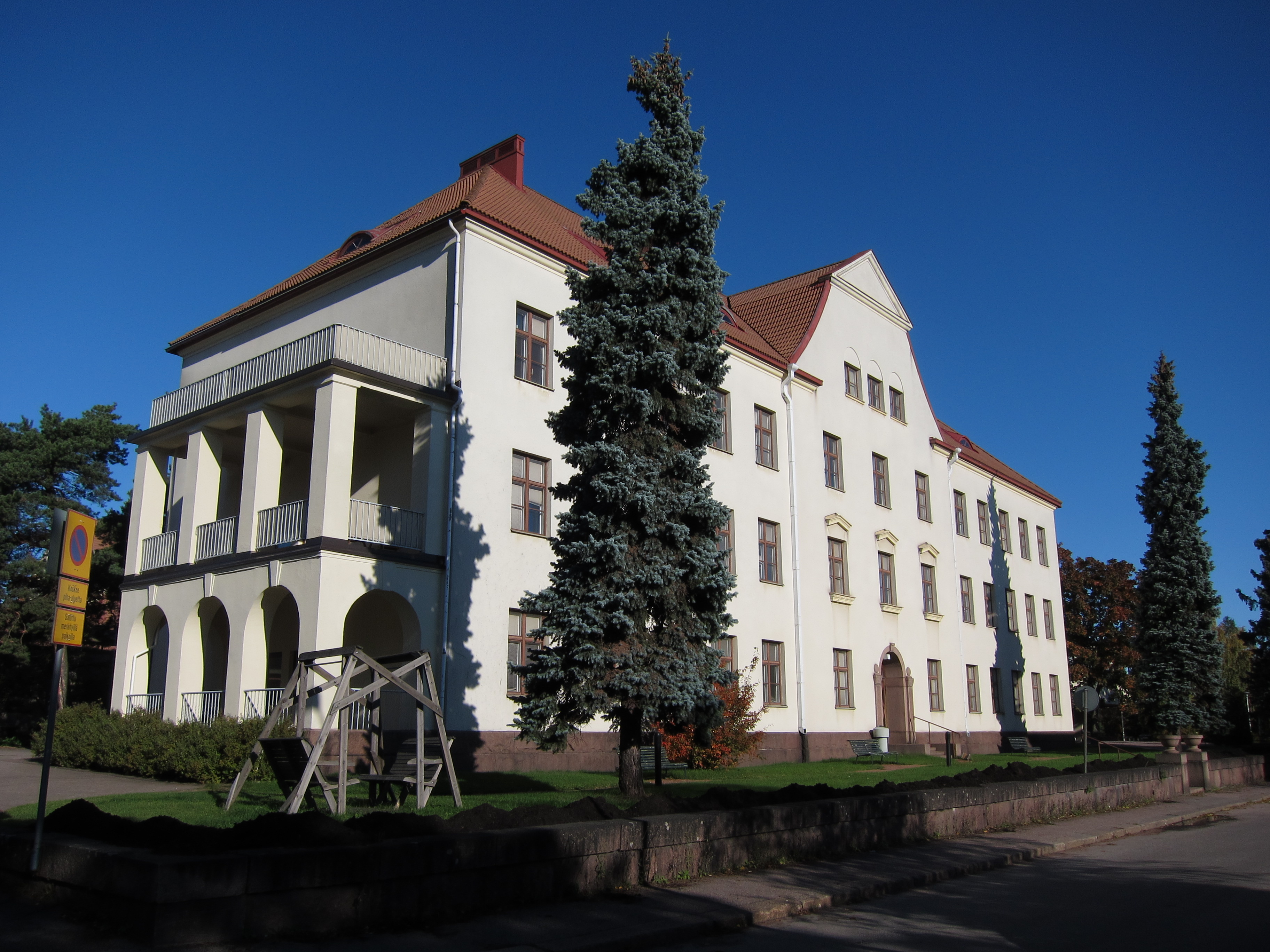 Main building of Kotkansaari Hospital in Kotka, Finland, was designed by architect Kaarlo Könönen, and completed in 1925.